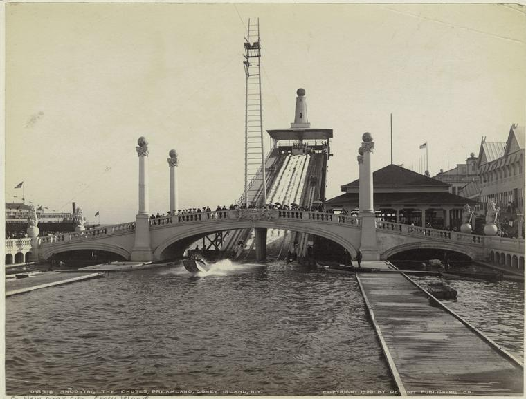 Shooting the chutes, Dreamland, Coney Island, N.Y., 1905 from the New York Public Library, category:Amusement park images